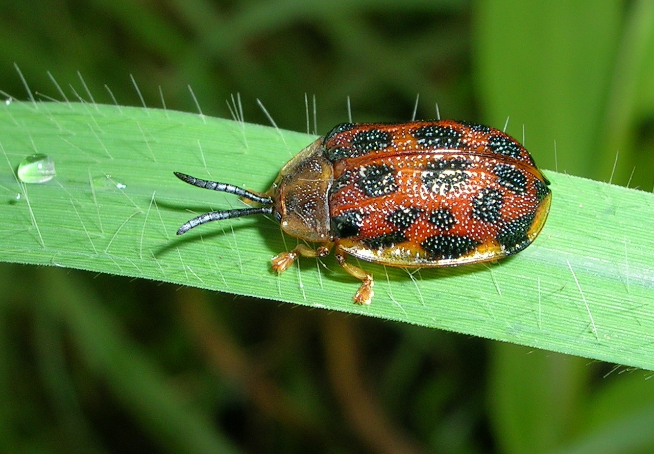 Tortoise beetle, Epistictina reicheana (determined Lech Borowiec ), Nagerhole, India